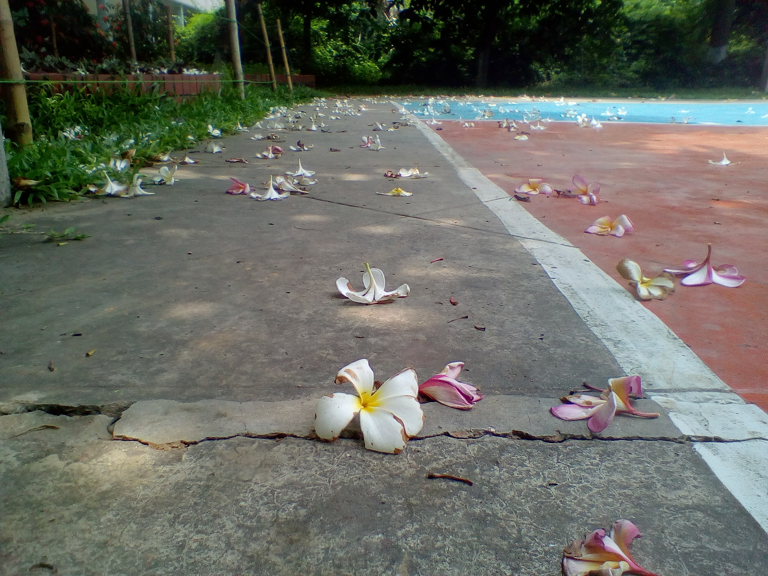 This picture was taken by me when I came to NDC to get admitted.